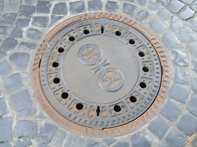 Manhole cover with the Wheel of Mainz in Mainz